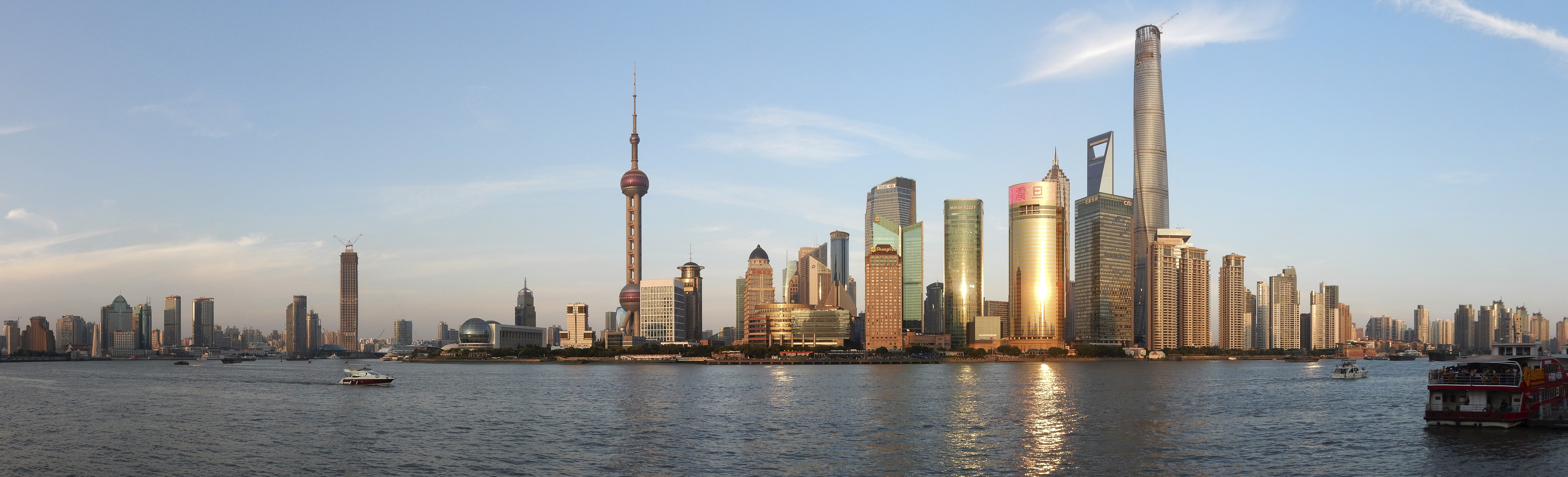 Pudong skyline, Shanghai, China NOTE: This image is a panorama consisting of 6 frames that were merged in Hugin. As a result, this image necessarily underwent some form of digital manipulation. These manipulations may include blending, blurring, cloning, and color and perspective adjustments. As a result of these adjustments, the image content may be slightly different than reality at the points where multiple images were combined. This manipulation is often required due to lens, perspective, and parallax distortions. This image was created with Hugin